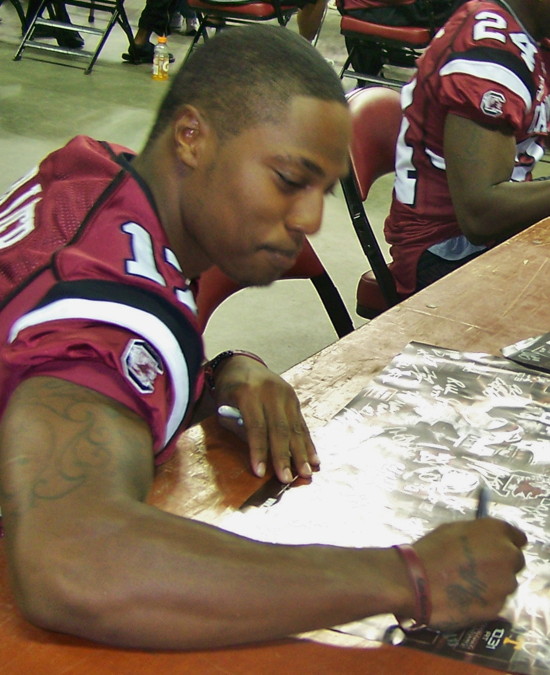 Chris Culliver, cornerback for the University of South Carolina football team, signs an autograph at Gamecock Fan Appreciation Day in 2009.